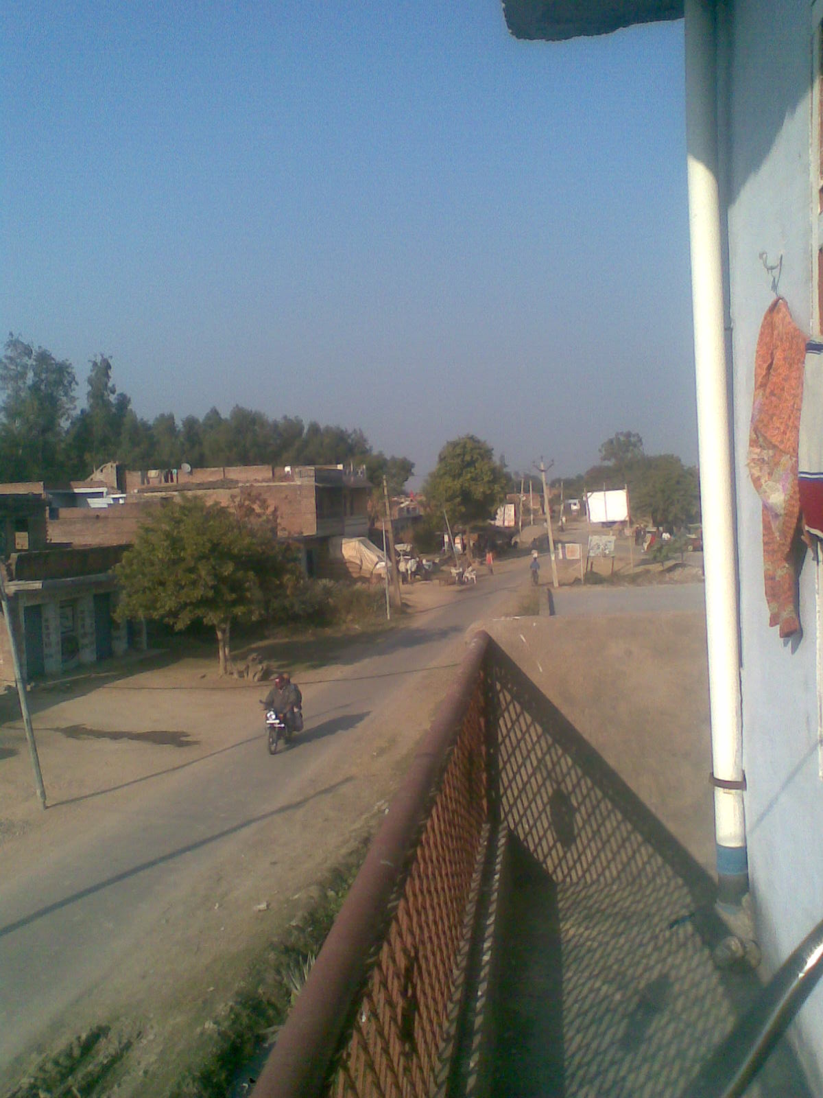 this road goes from tiraha to thana and purani bazar mangalpur it also connect to Auriya District...